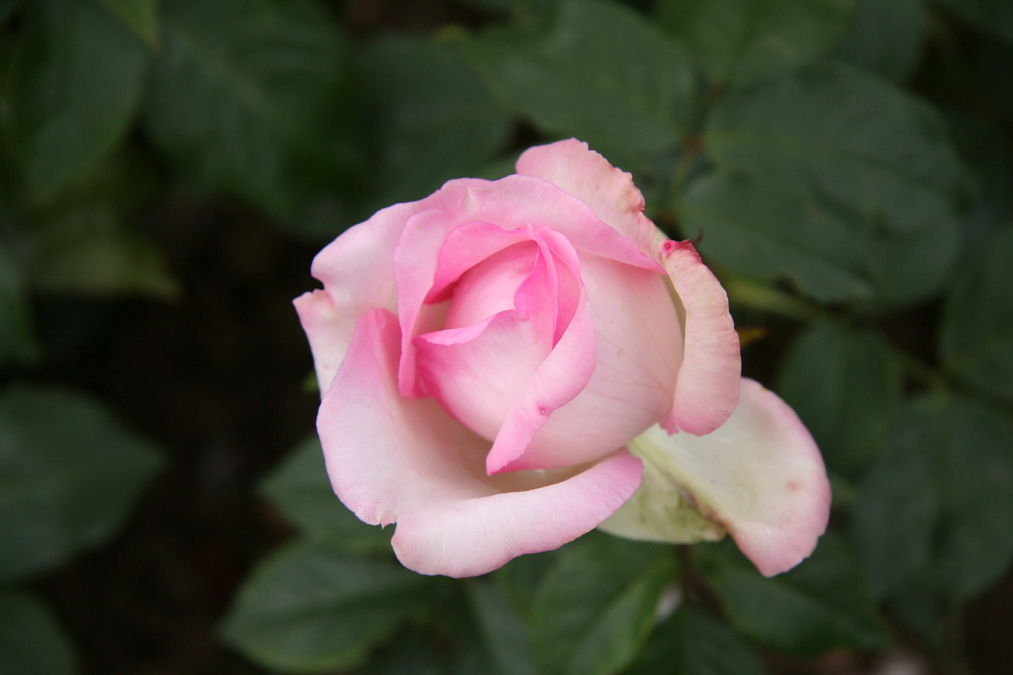 Honoré de Balzac rose - Bagatelle Rose Garden (Paris, France).